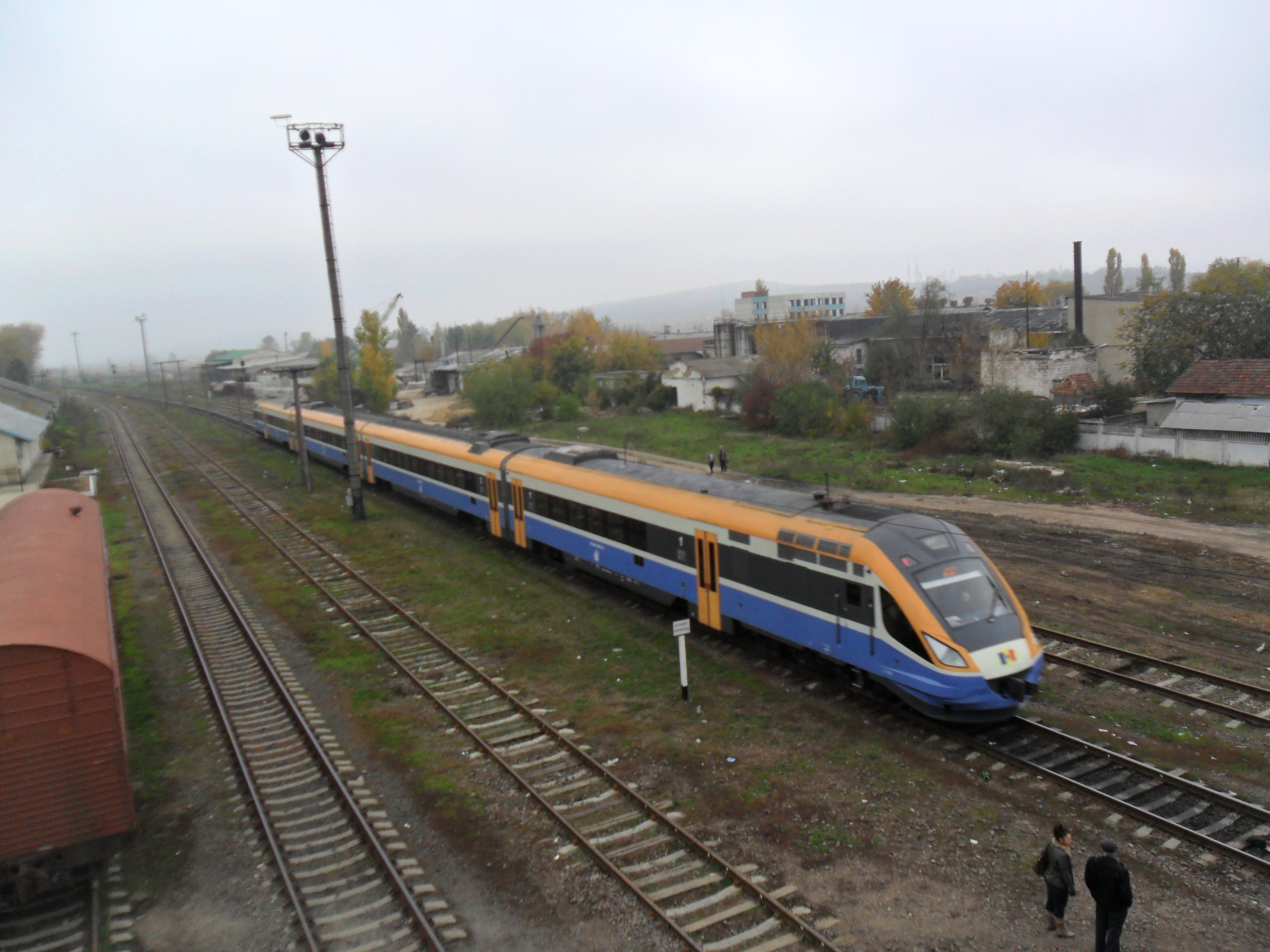 Modern train leaving the Strășeni train station